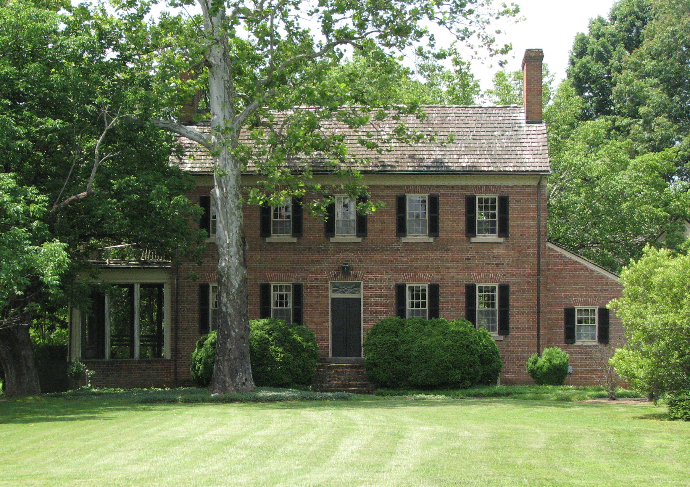 Located in Spotsylvania County, Virginia, Kenmore (1829) is listed on the National Register of Historic Places